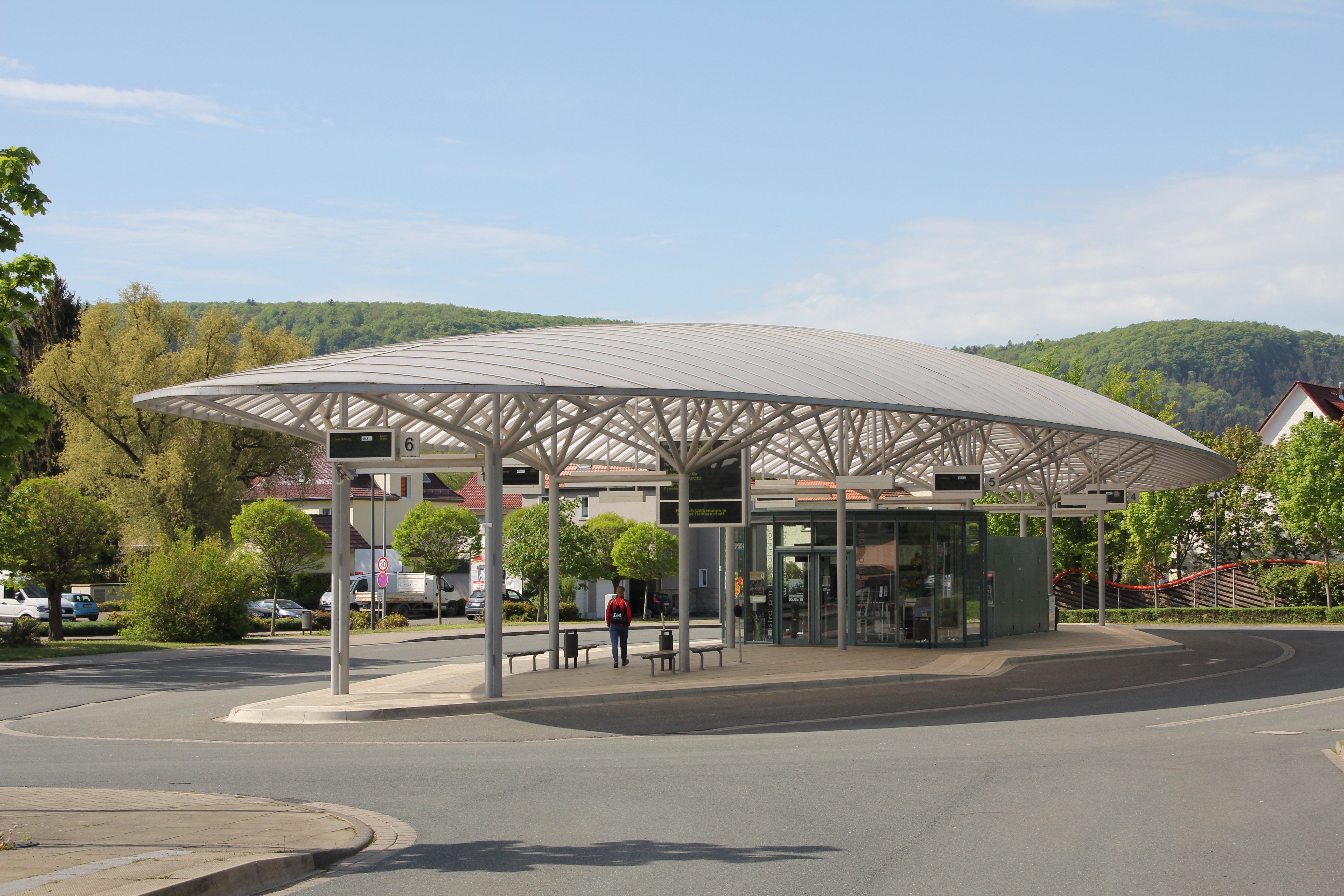 Bus station in Heilbad Heiligenstadt